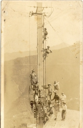 Men standing atop the tower of Honduras' first electric power plant, the hydroelectric plant in San Juancito, F.M.